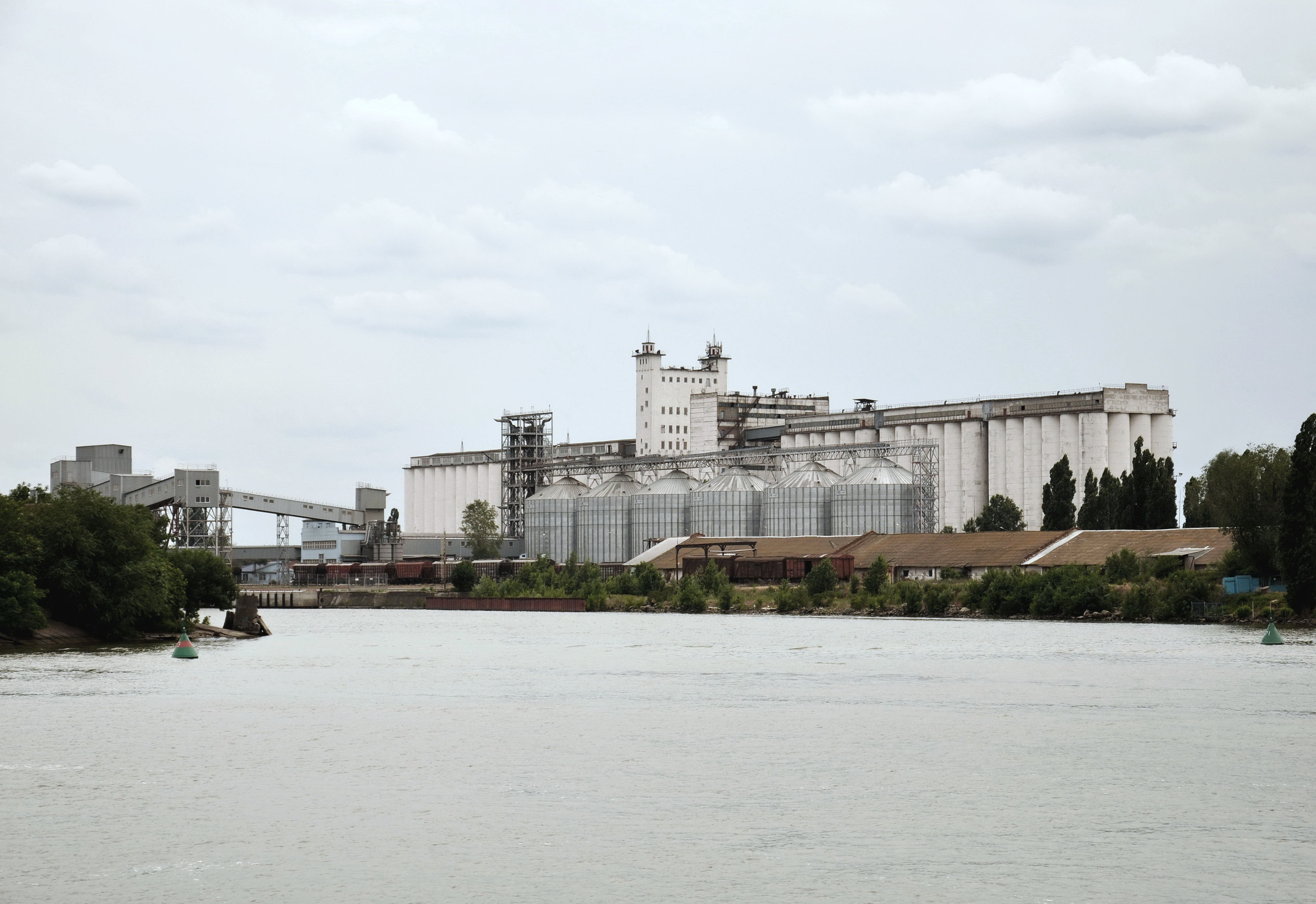 Grain elevator building on the left bank of the River Don, Rostov-on-Don, Russia